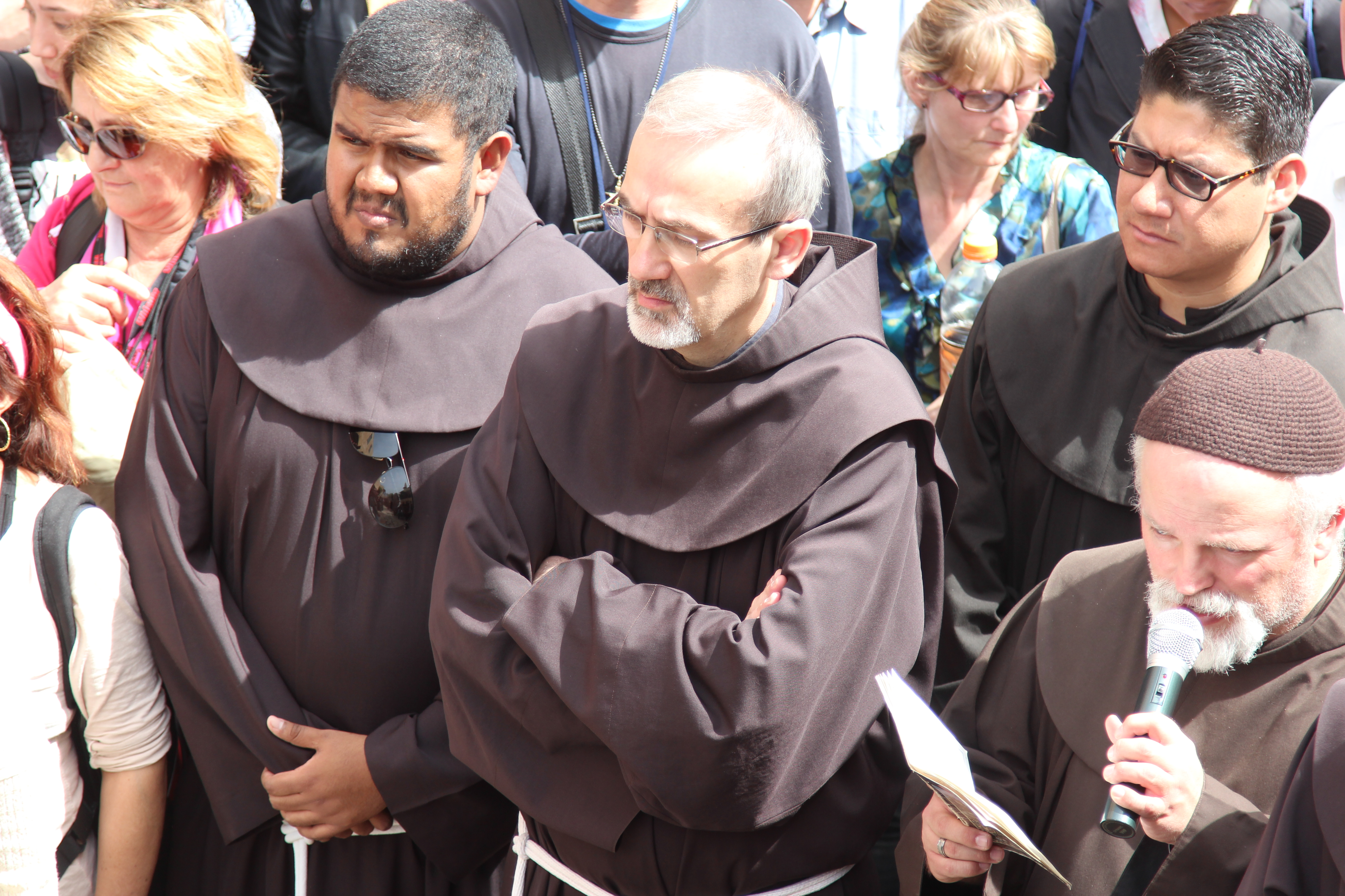 Good Friday procession on First Station in Jerusalem